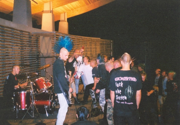 Estonia's oldest punk music festival Punk'n'Roll in Kilingi-Nõmme, July 4th, 2006. Foto: Karu.